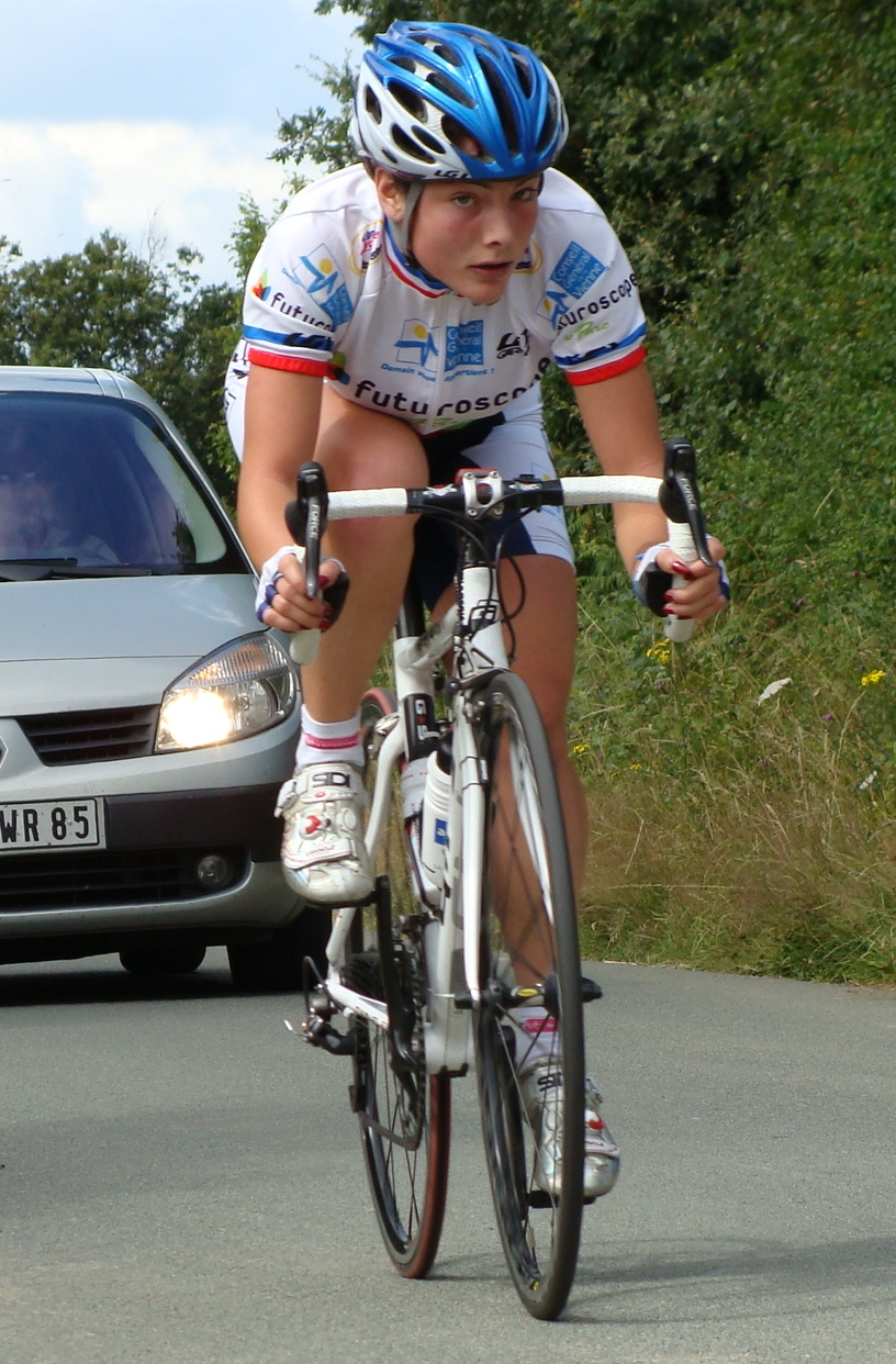 Pascale Jeuland, championnat interrégionnal.